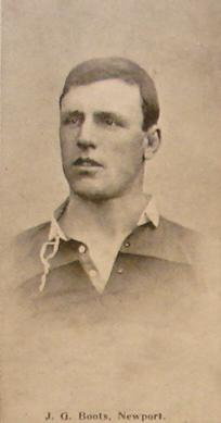 George Boots, Wales international rugby union player, Cardiff club